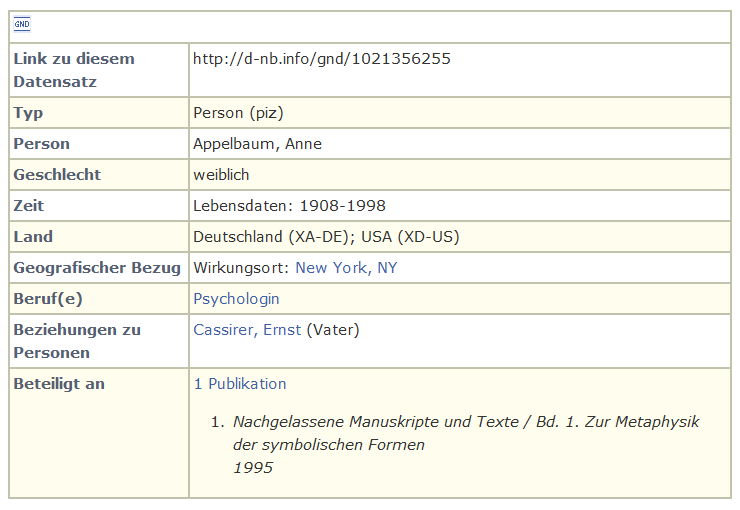 Integrated Authority File (GND): Screenshot of the website of the German National Library (Browser: Opera 11.62).